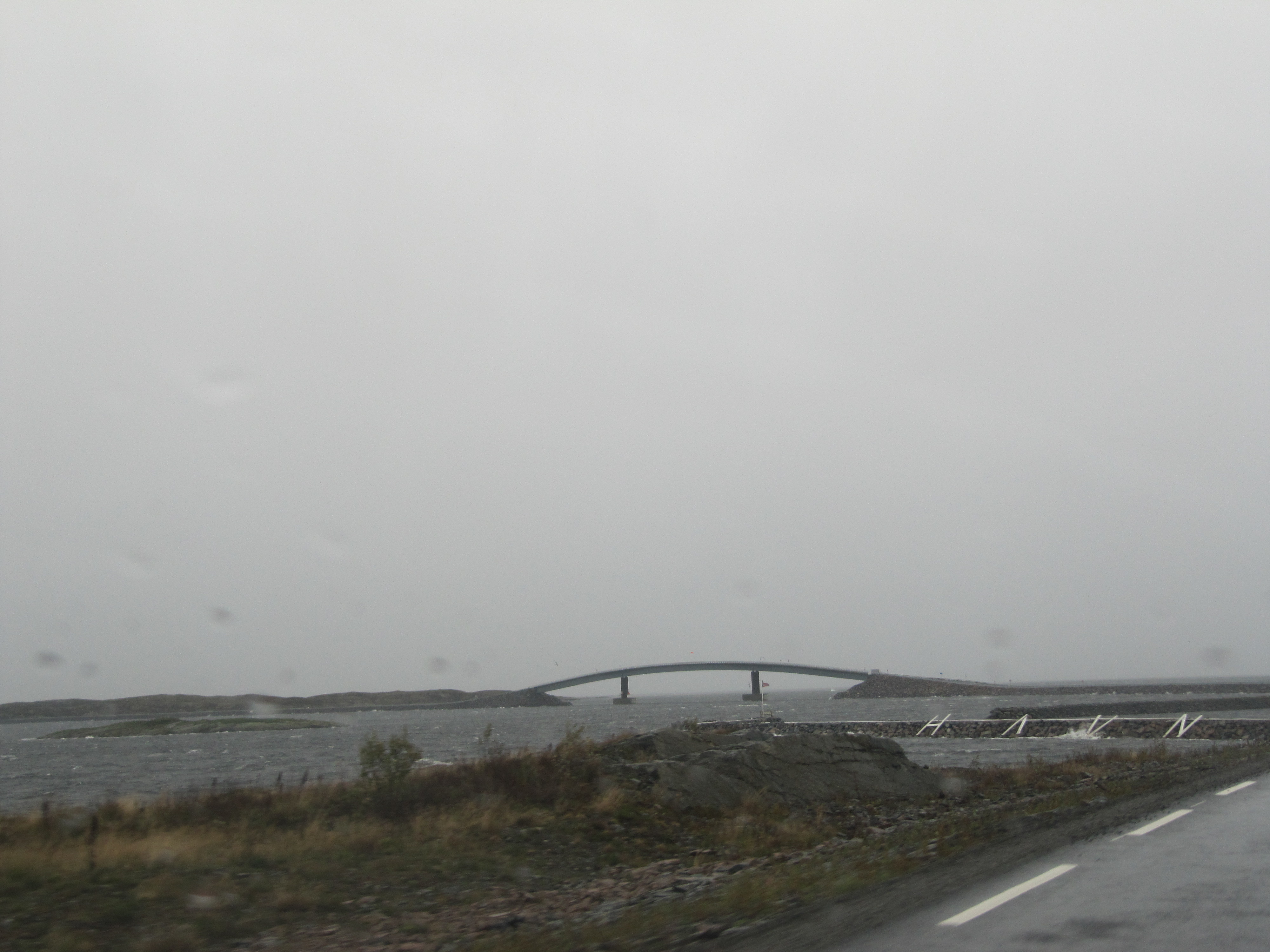 Picture of Linesøybrua, seen from Stokkøya